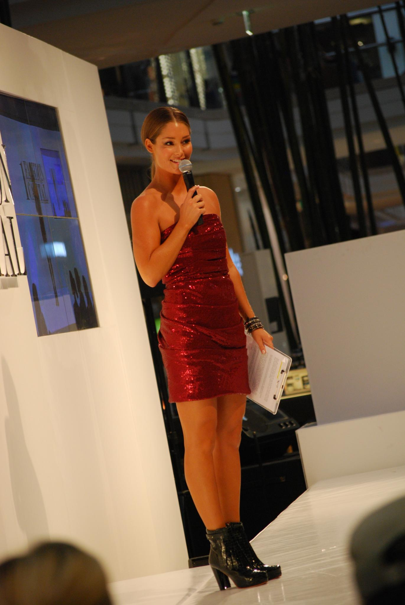 Erin McNaught in L'oreal Melbourne Fashion Festival 2010, Chadstone Shopping Centre.